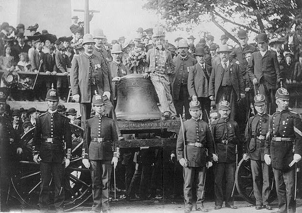 The Liberty Bell on its 1903 visit to the Bunker Hill monument (visible background left).